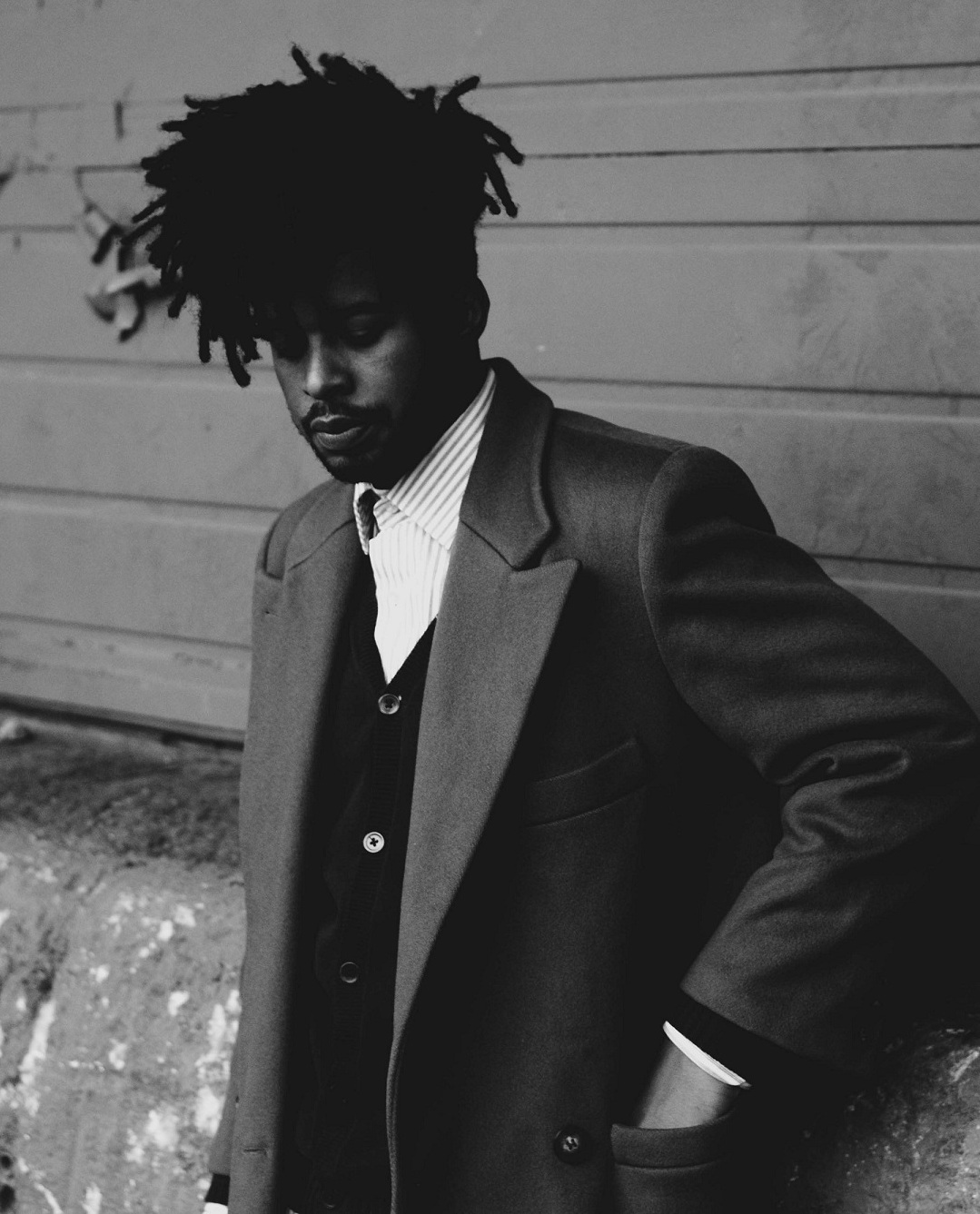 Ferrari Sheppard by Lawrence Agyei